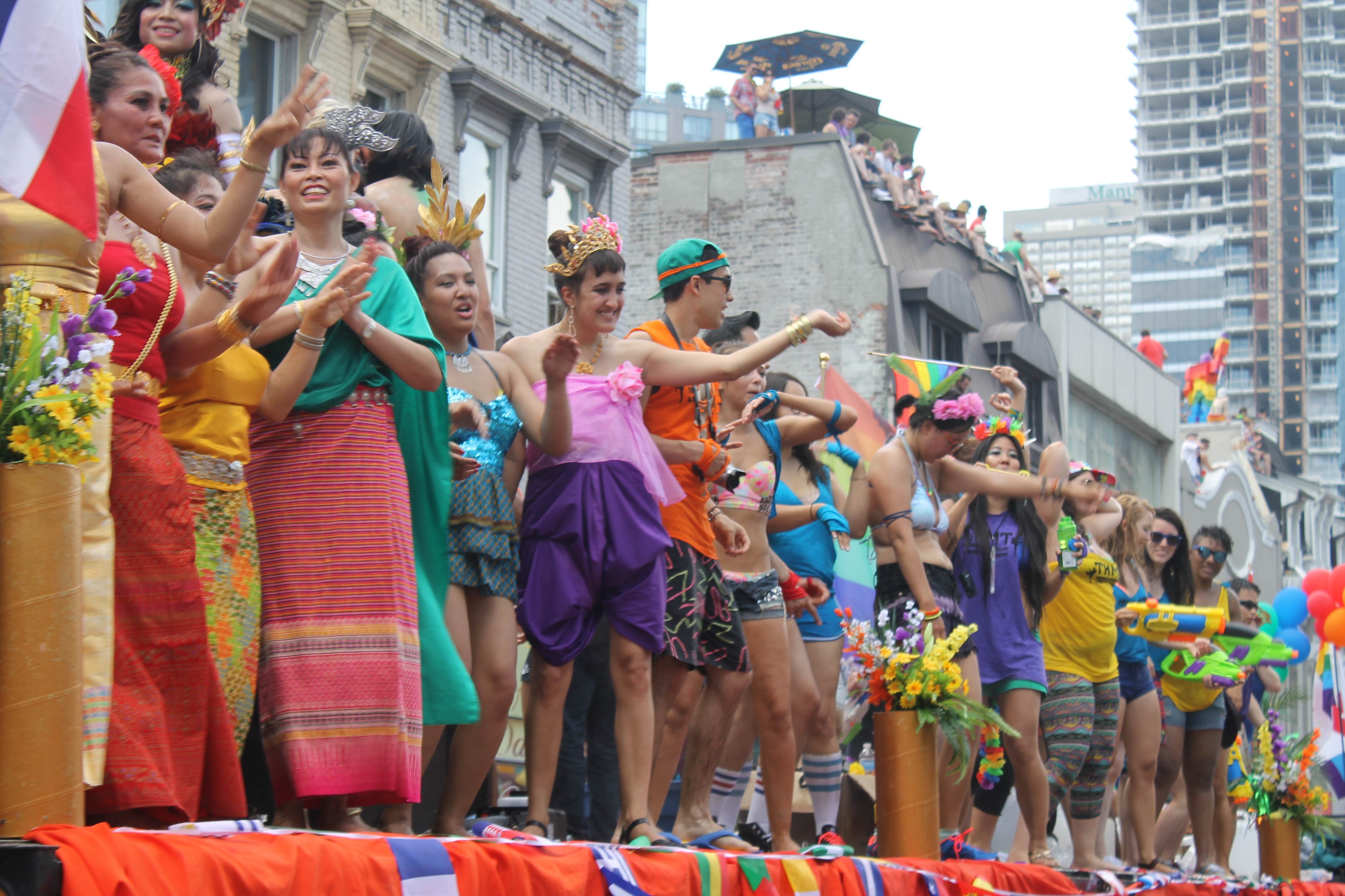 In 2014, Toronto hosted WorldPride.